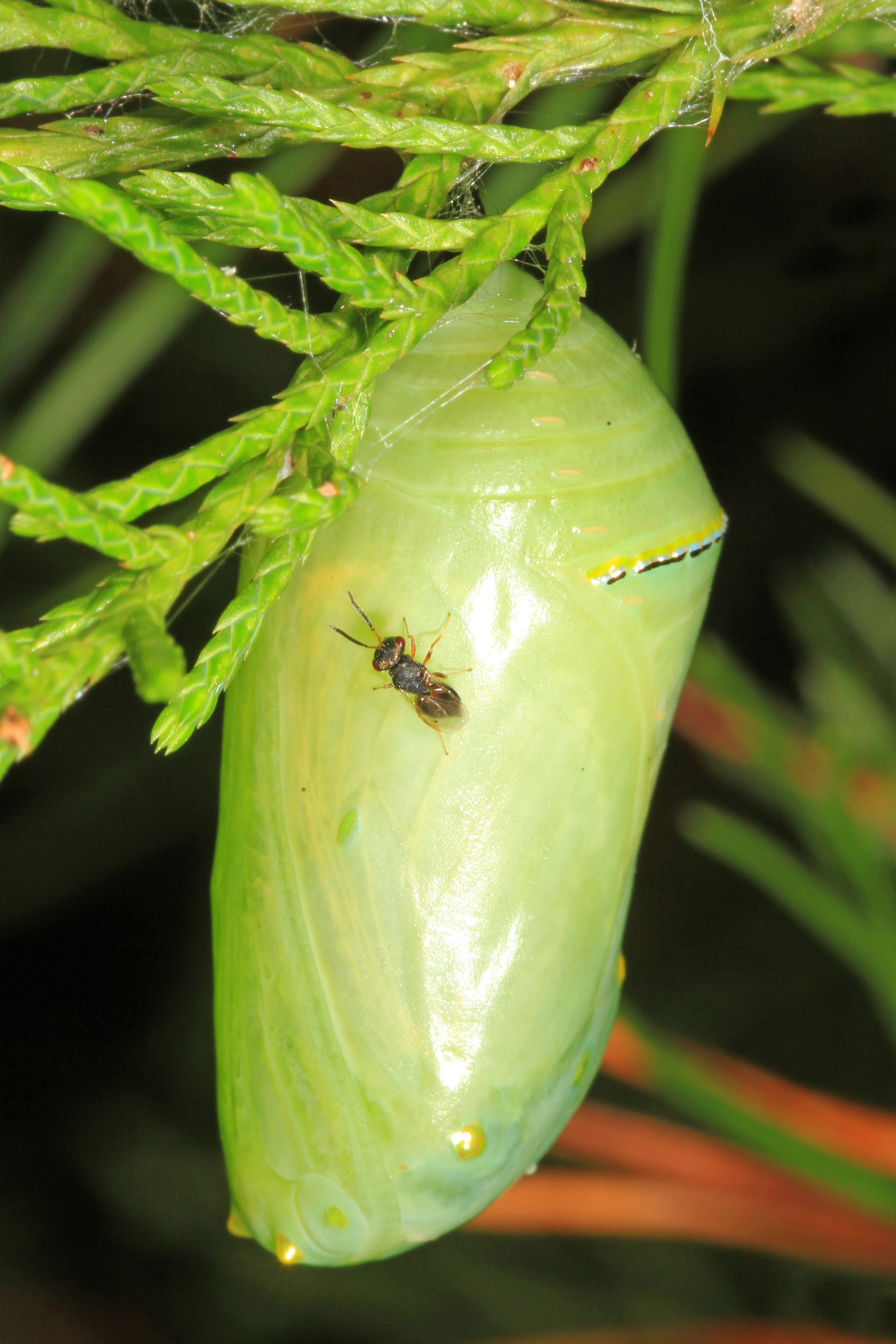 Monarch chrysalis - Danaus plexippus and Pteromalid Wasp, Meadowood Farm SRMA, Mason Neck, Virginia. There are conflicting reports about whether the wasp can parasitize the chrysalis after it has hardened. I hope the monarch will be OK!